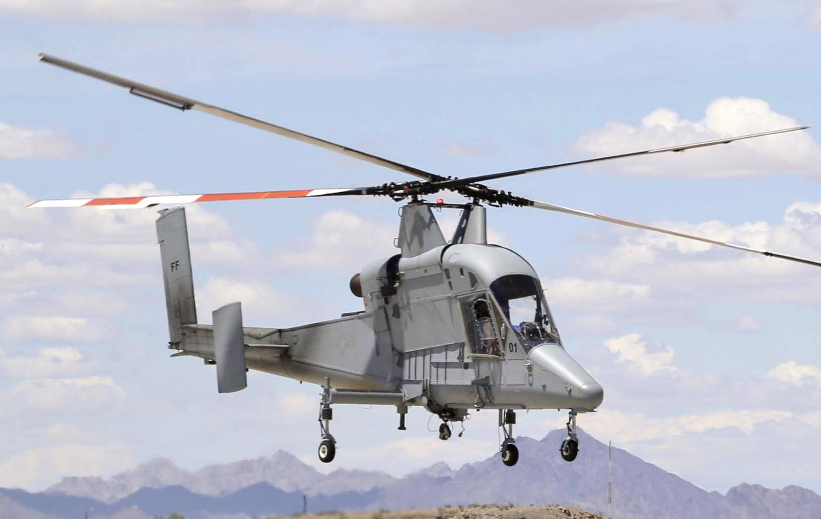 The Marine Corpsâ€™ first two Kaman K-MAX Helicopters arrived at Marine Corps Air Station Yuma, Ariz., Saturday, May 7, 2016. The K-MAX will be added to MCAS Yuma's already vast collection of military air assets, and will utilize the stationâ€™s ranges to strengthen training, testing and operations acrossthe Marine Corps.